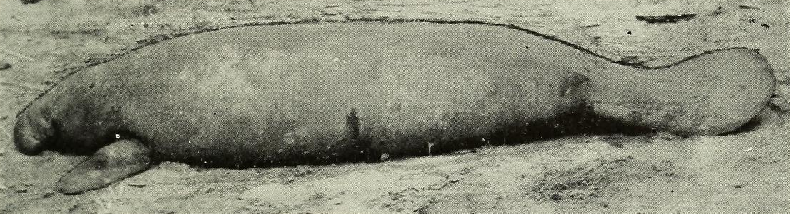 West african manatee